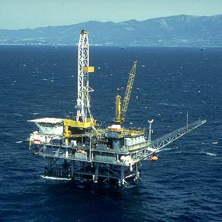 Offshore Oil Platform surrounded by ocean, miles from land.